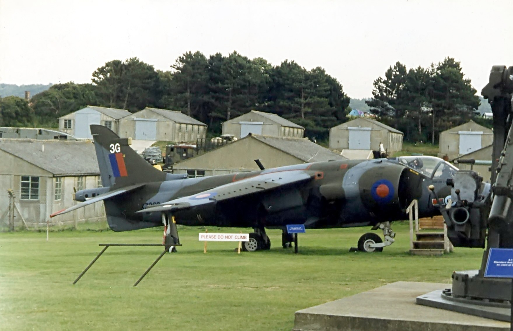 an original photograph of the Jump jet at the Mucklebourgh collection by Mark Hobbs